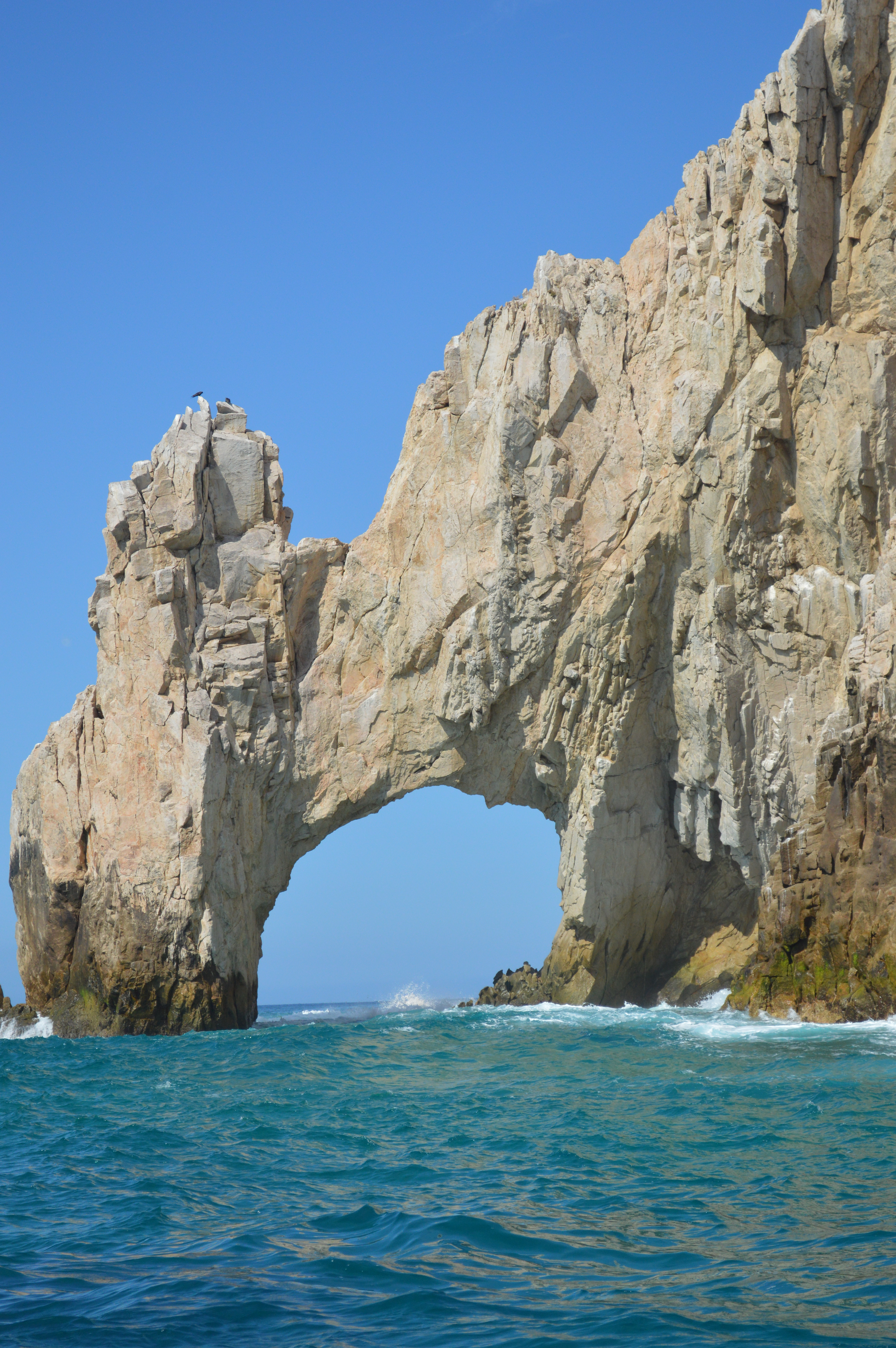 The arch formation at the Land's End peninsula in Cabo San Lucas, Baja California Sur